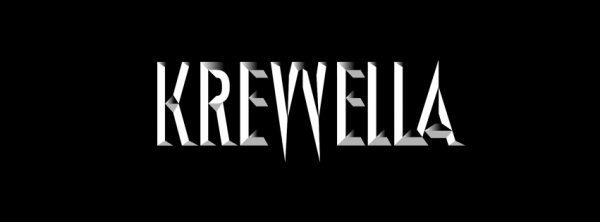 Black Krewella logo